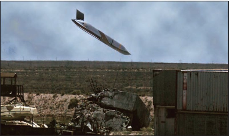 JASSM is a long-range Air Force air-to-ground precision missile that is able to strike targets from a variety of aircraft, including the B-1, B-2, and F-16. The Air Force plans for the JASSM Extended Range (ER) variant to add greater range capability to the baseline missile. According to the program office, the baseline JASSM and the ER variant share approximately 70 percent commonality in components. We assessed both variants.